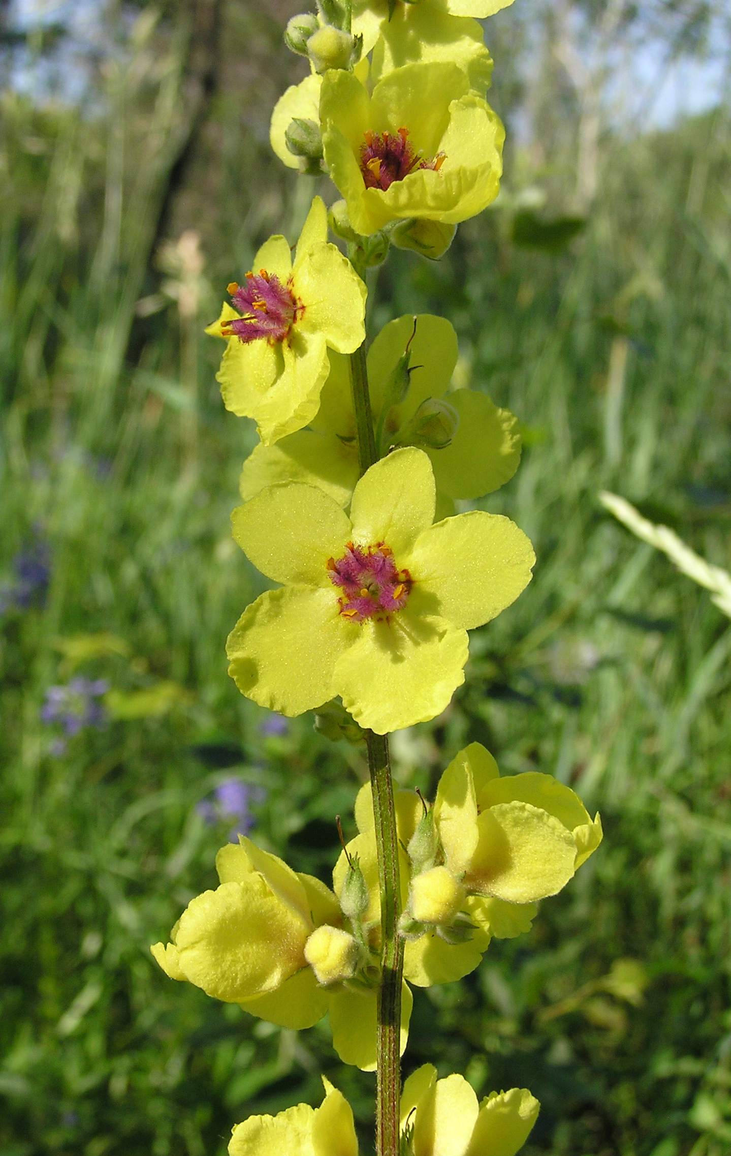 Verbascum marschallianum (Ivanina & Tzvelev), flowers. Habitat: edges of upland deciduous forest. Vicinity of Saratov city, Russia.